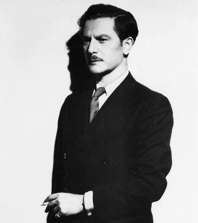 Austrian actor Anton Walbrook circa 1935 - Publicity portrait